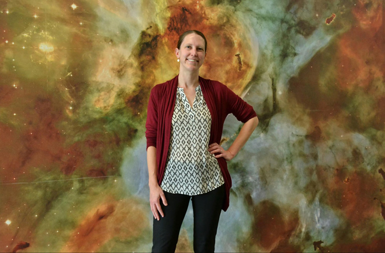 American astrophysicist Heather Knutson studies exoplanets at the NASA Jet Propulsion Laboratory and California Institute of Technology.